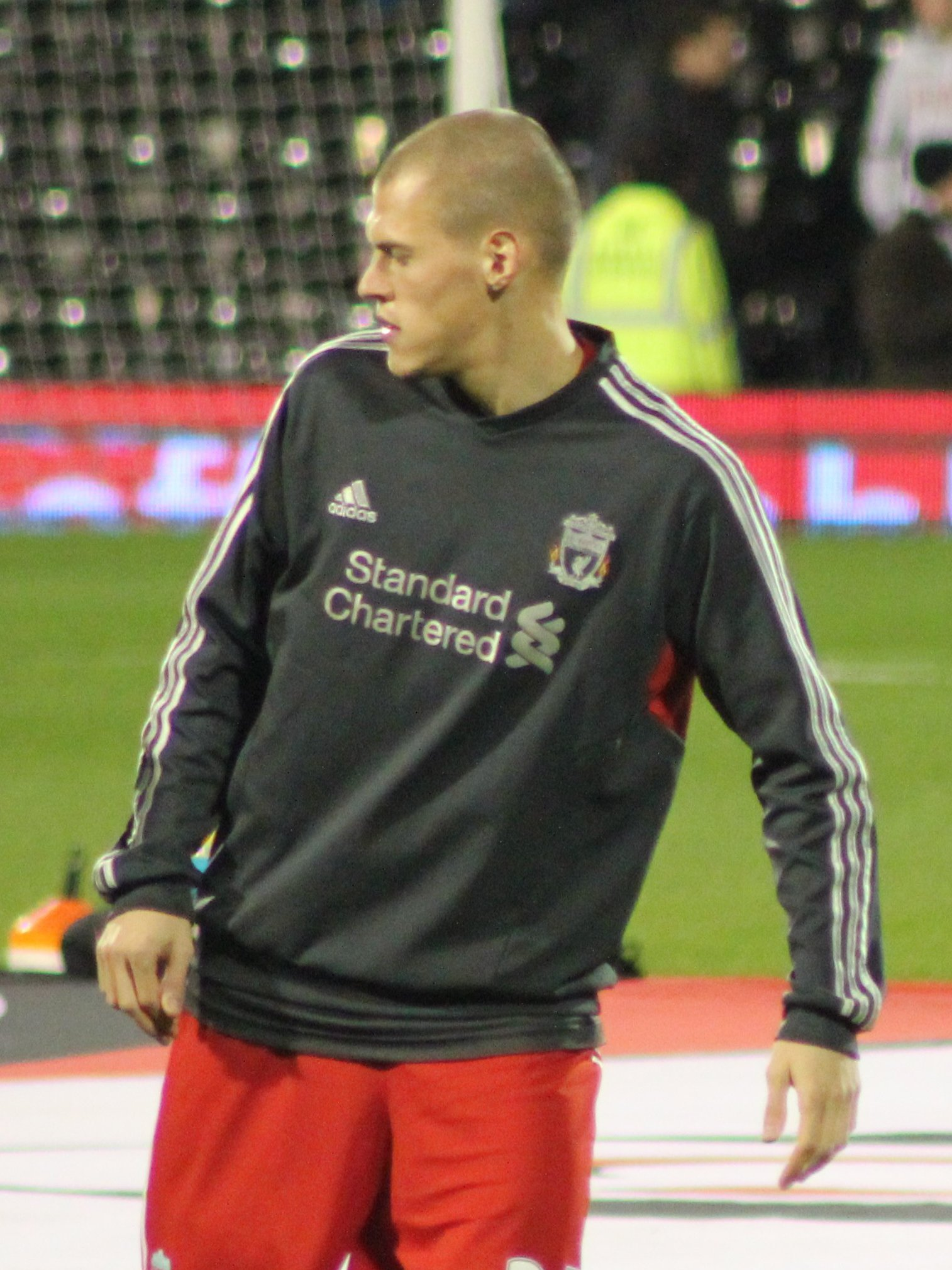 Škrtel warming up before the Fulham vs Liverpool game